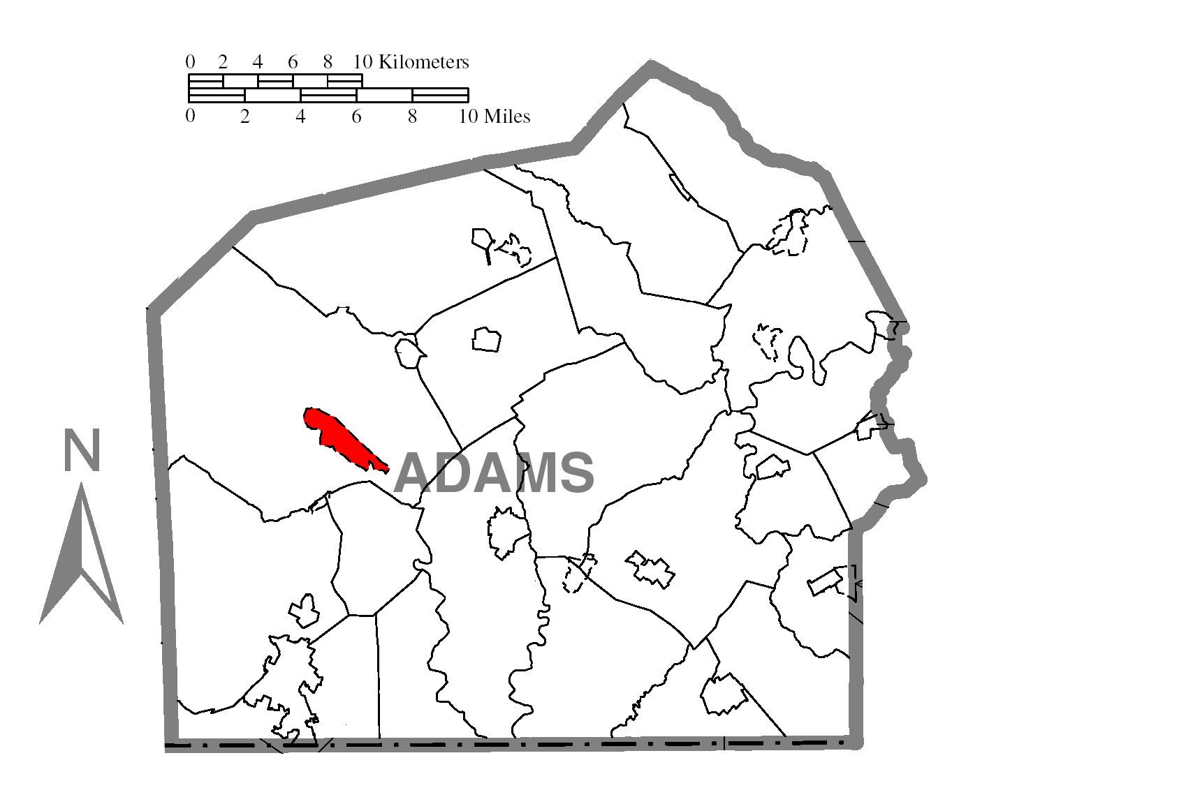 A map of Adams County showing Cashtown-McKnightstown, Pennsylvania (alternate) highlighted on the map.